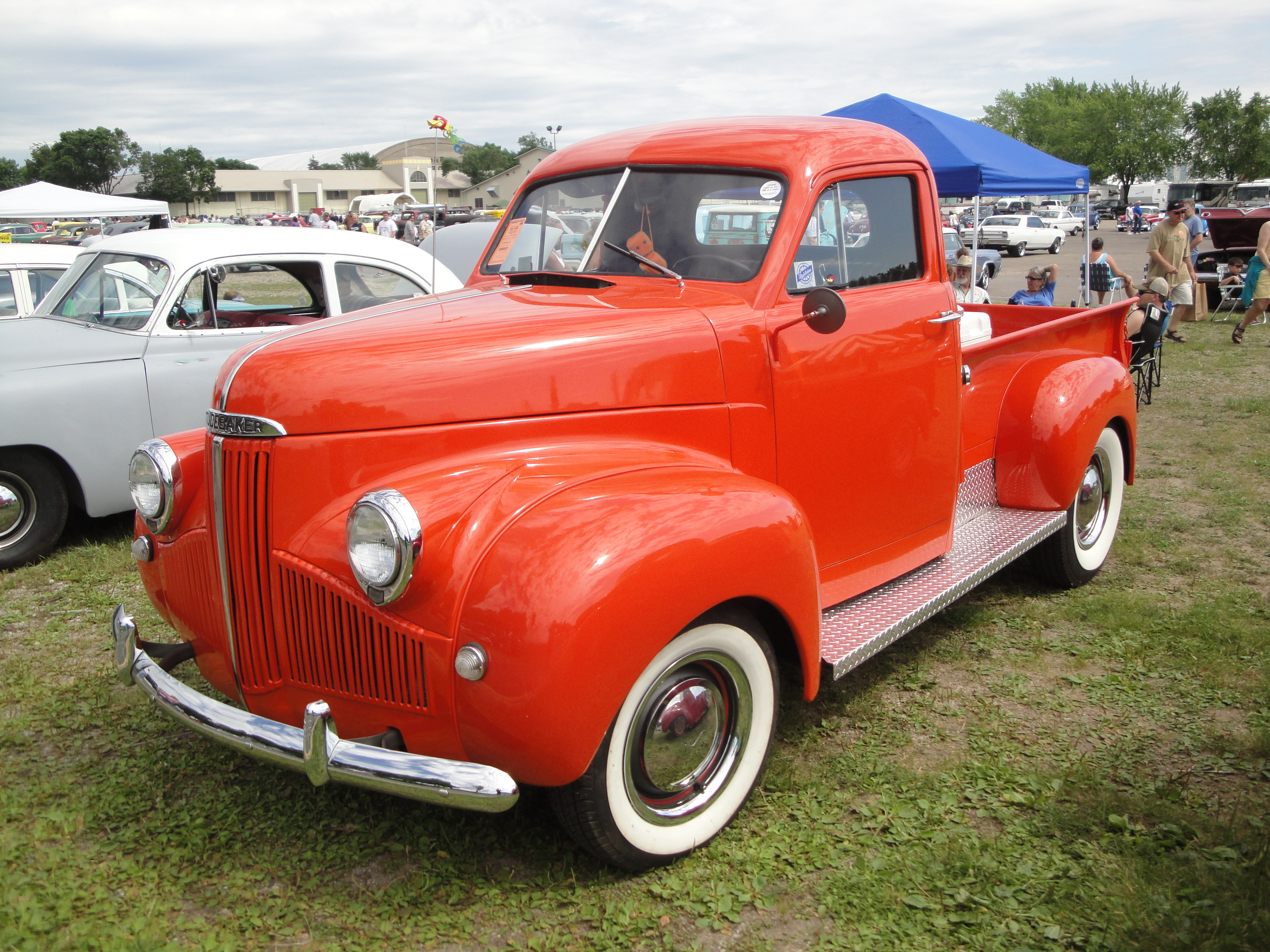 Minnesota Street Rod Association 39th Annual "Back to the Fifties" June 2012 Minnesota State Fairgrounds St. Paul MN